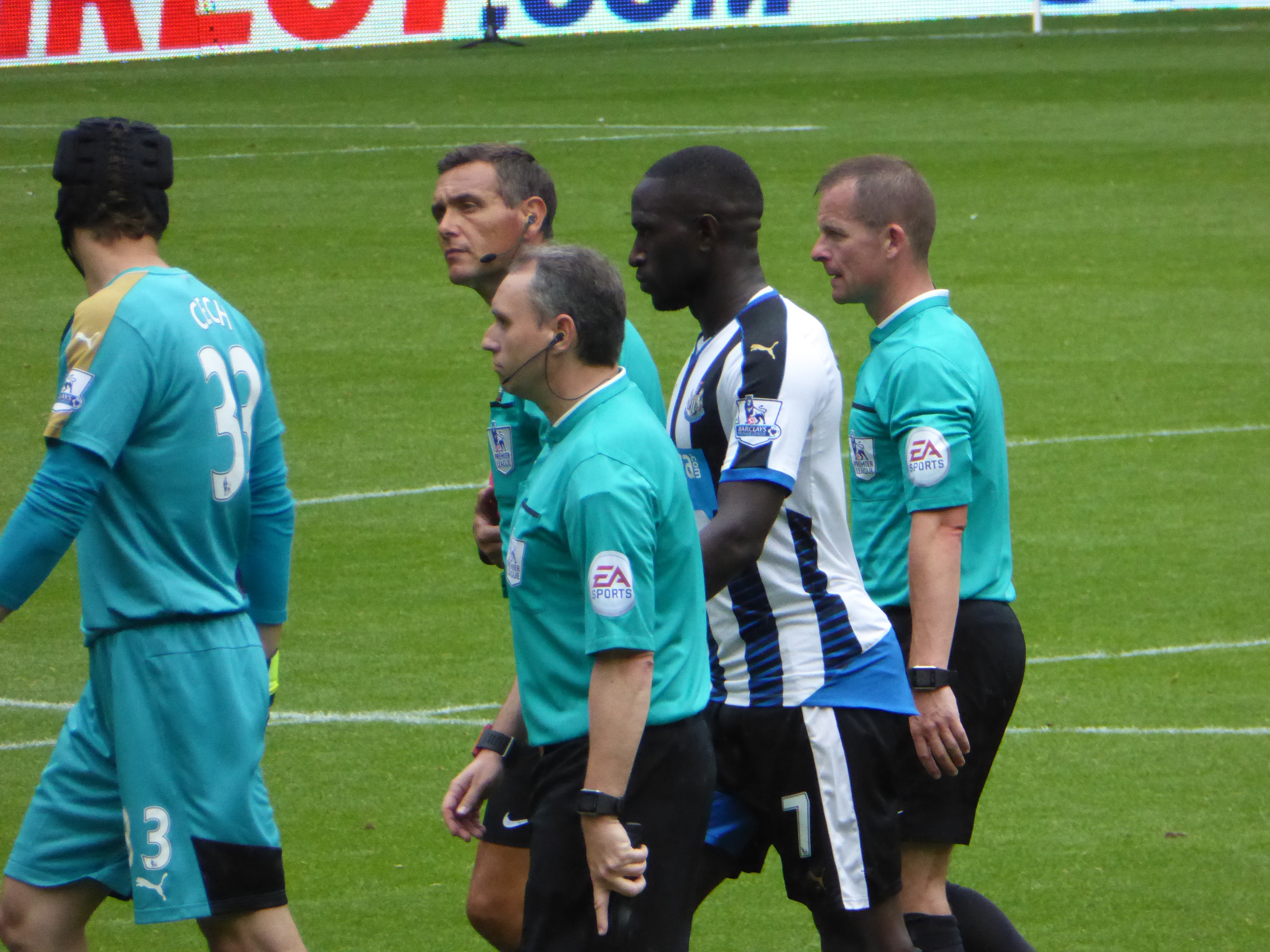 Newcastle United vs Arsenal (0-1), St James' Park, Newcastle upon Tyne, Tyne and Wear, England, August 2015